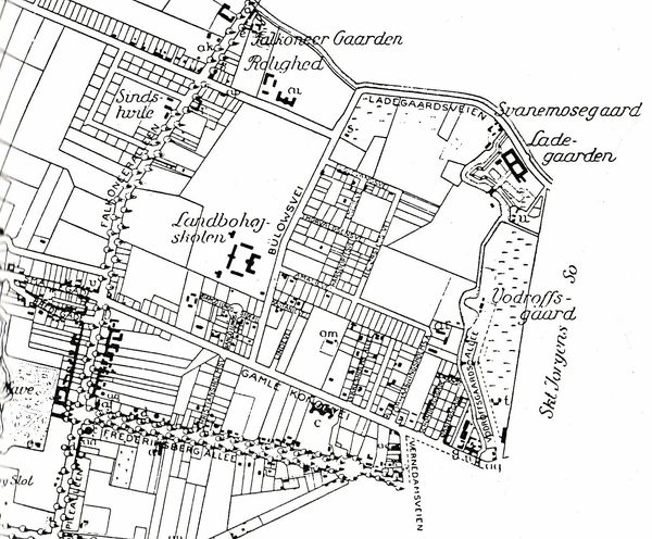 Map detail sjowing the area West of St. Jørgens Sø in Frederiksberg, Copenhagen, Denmark